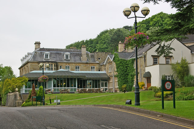 The Manor House, Celtic Manor Resort, Newport, Wales